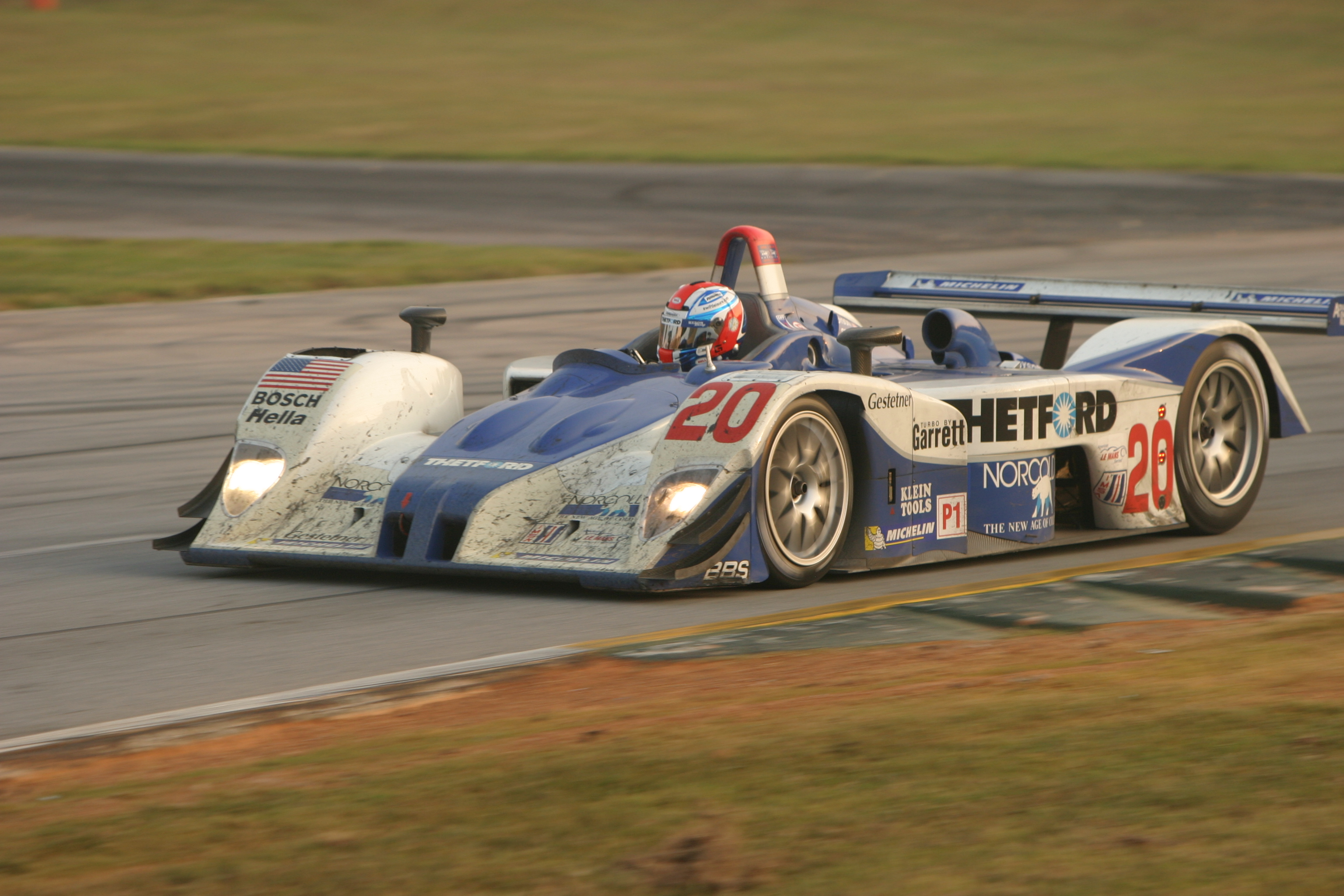 № 20 Lola EX257/AER - LMP1 Dyson Racing Road Atlanta Petit Le Mans October 1, 2005 Round 9 American Le Mans Series Chris Dyson/Pleasant Valley/NY Guy Smith/Beverley, UK (382 laps) - 2nd place